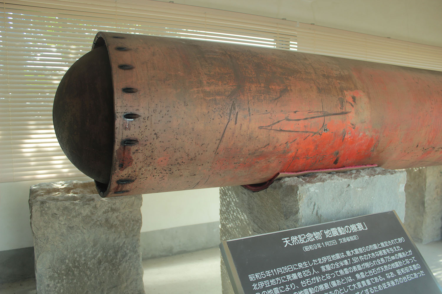 Scratch due to the earthquake (Jishindō-no-sakkon) is a one of the natural monuments in Japan. (info)